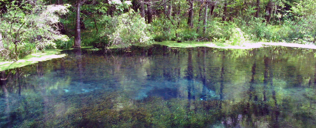 Blue Spring boil. A large karst spring at Ichetucknee Springs State Park, Florida